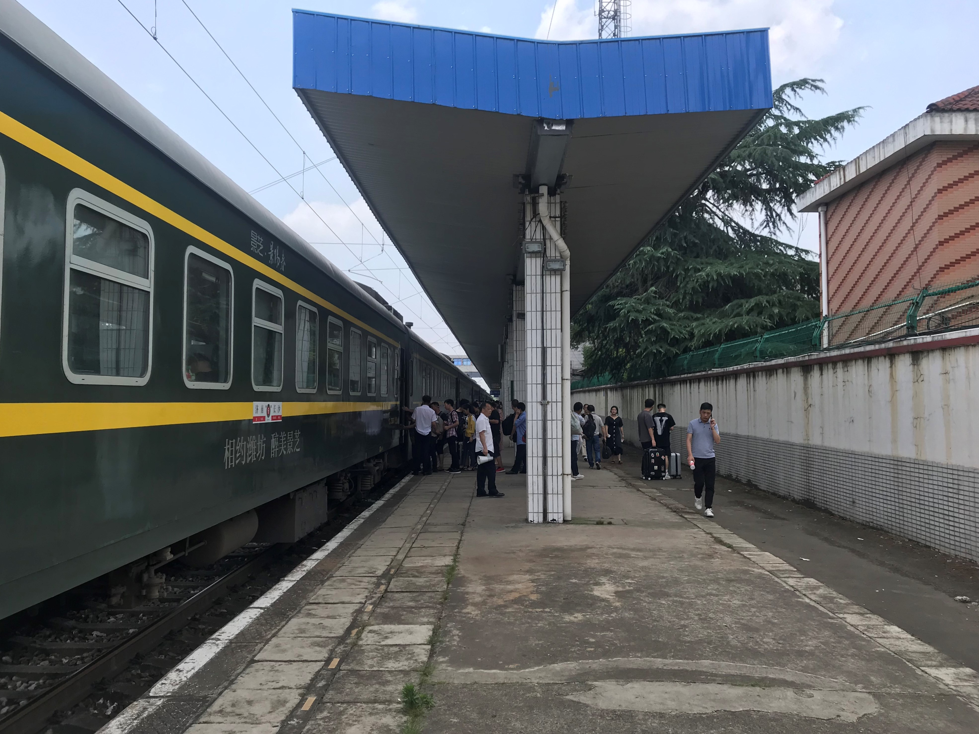 201906 Platform 2 of Miluo Station